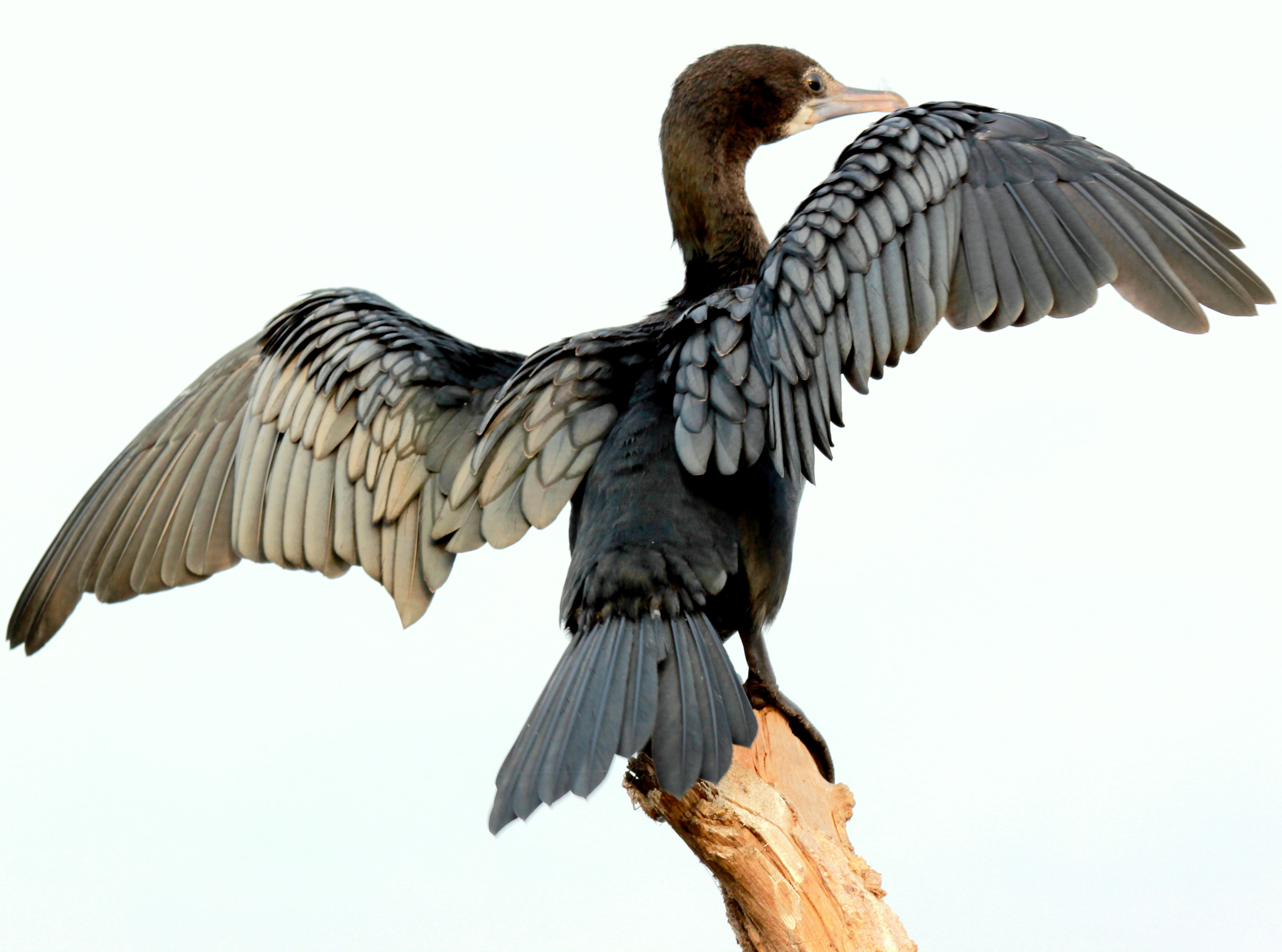 A Little Cormorant Microcarbo niger relaxes by perching on the bank of Kanjia Lake, Odisha, India.